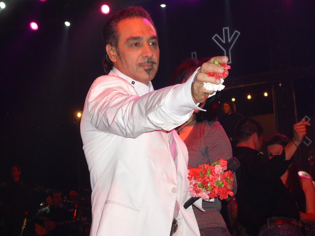 Notis Sfakianakis on stage in Athens, Greece December 2008.